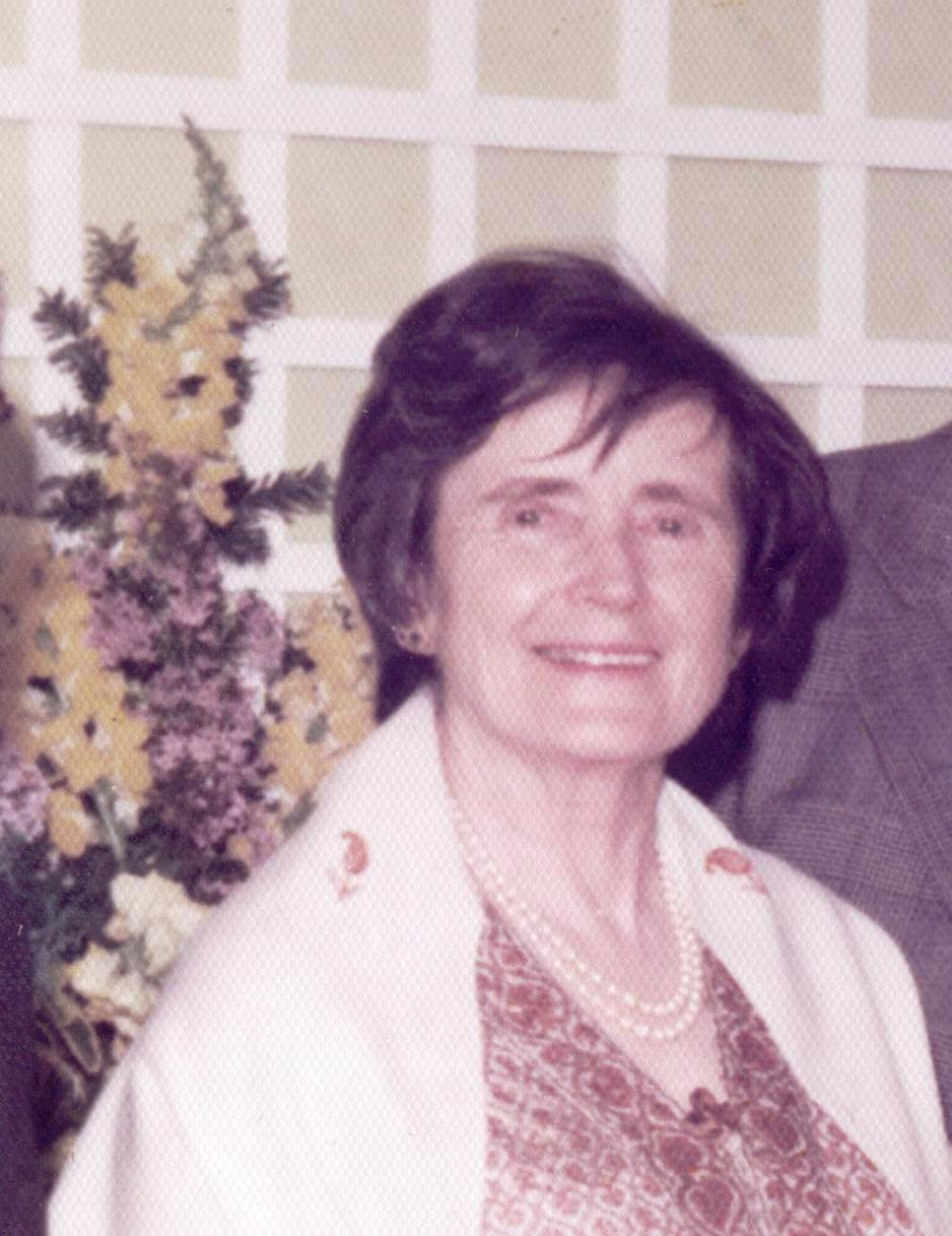 Susan Jellicoe in 1977